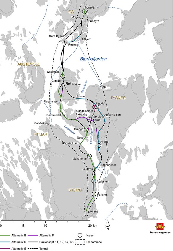 Map of Hordfast plans for crossing of Bjørnafjorden.